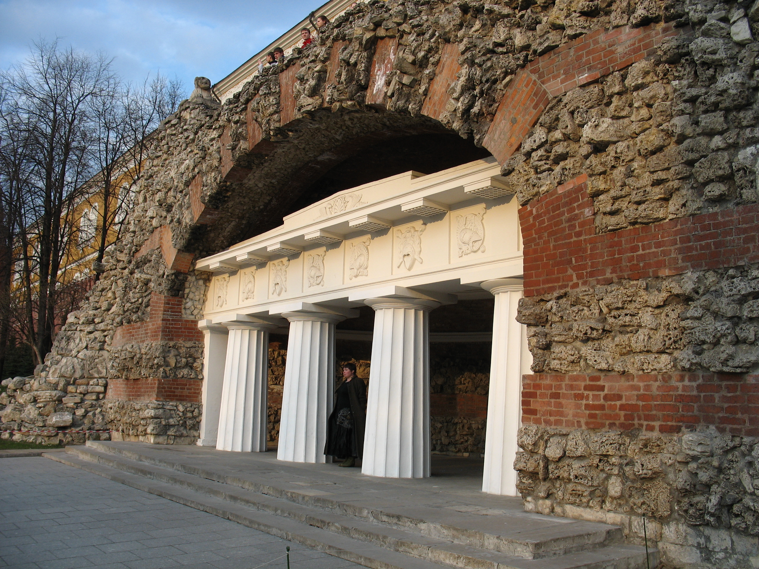 Grotto in Alexander Garden near from Moscow Kremlin